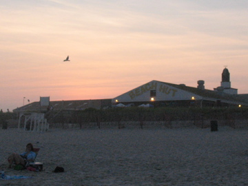 Smith Point, NY ... Stevan